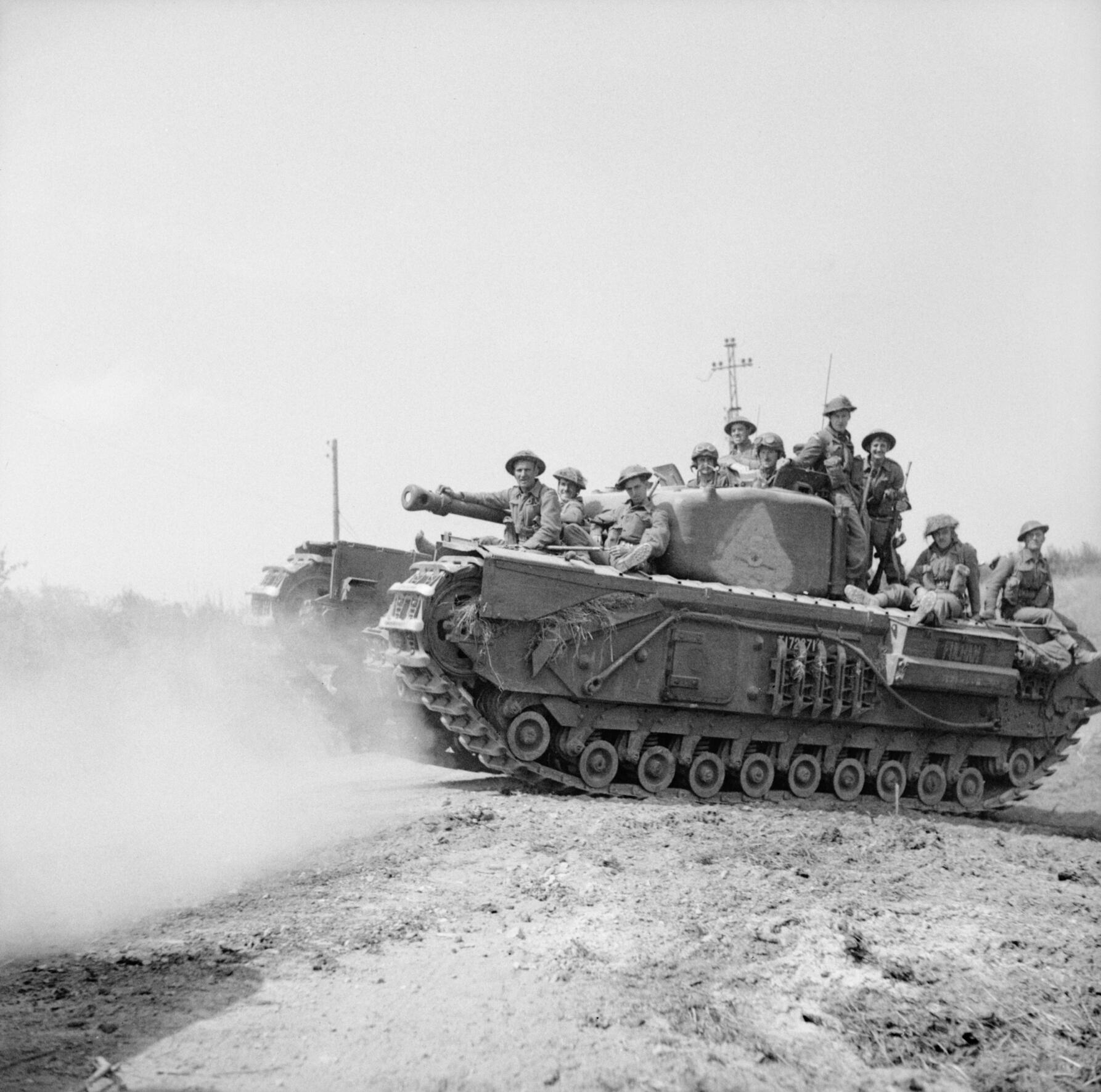 A Churchill tank carrying infantry advances towards St Pierre Tarentaine, Normandy, 3 August 1944. Churchill tank carrying infantry advance towards St Pierre Tarentaine, 3 August 1944.